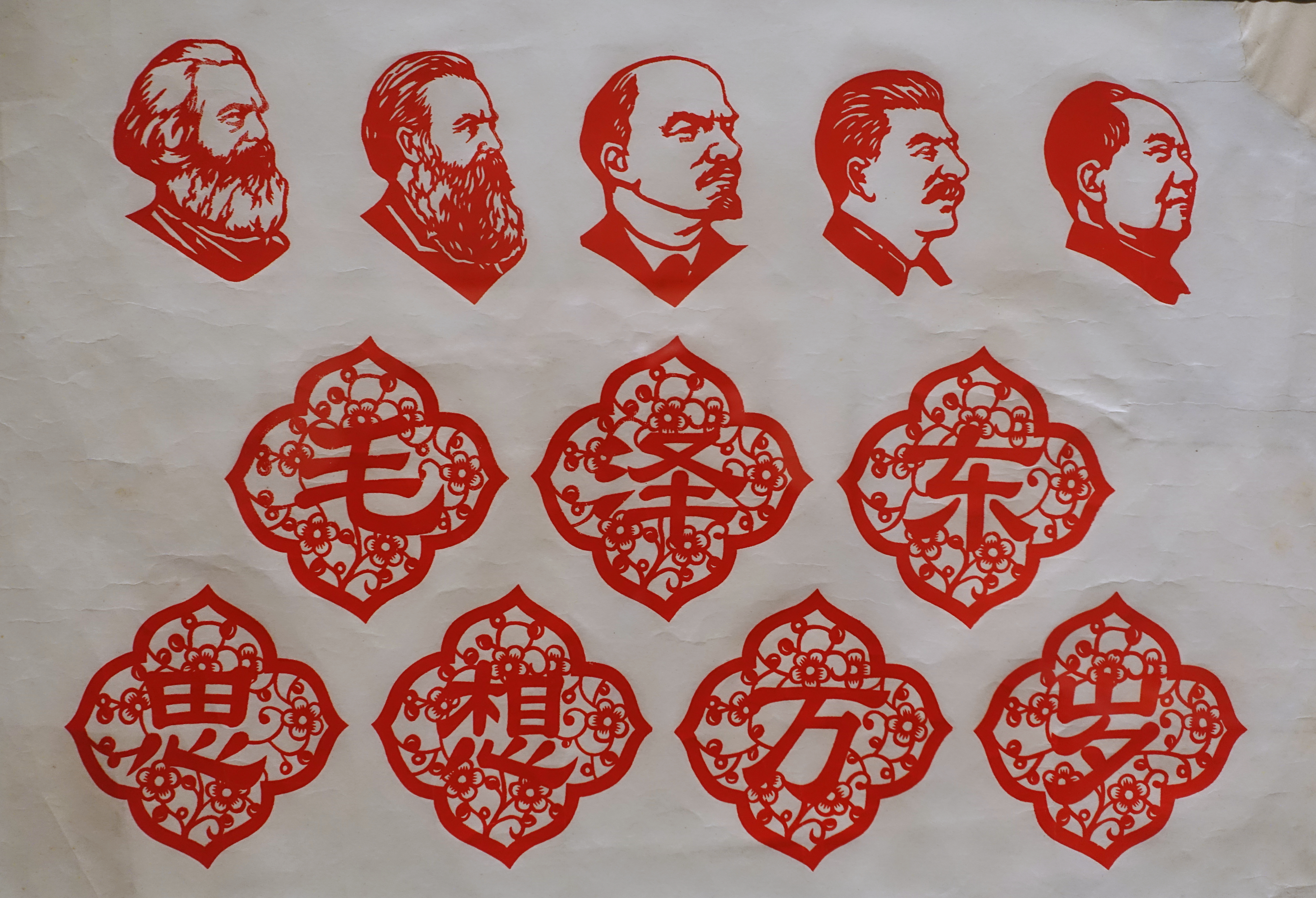 Exhibit in the Jordan Schnitzer Museum of Art, University of Oregon - Eugene, Oregon, USA.